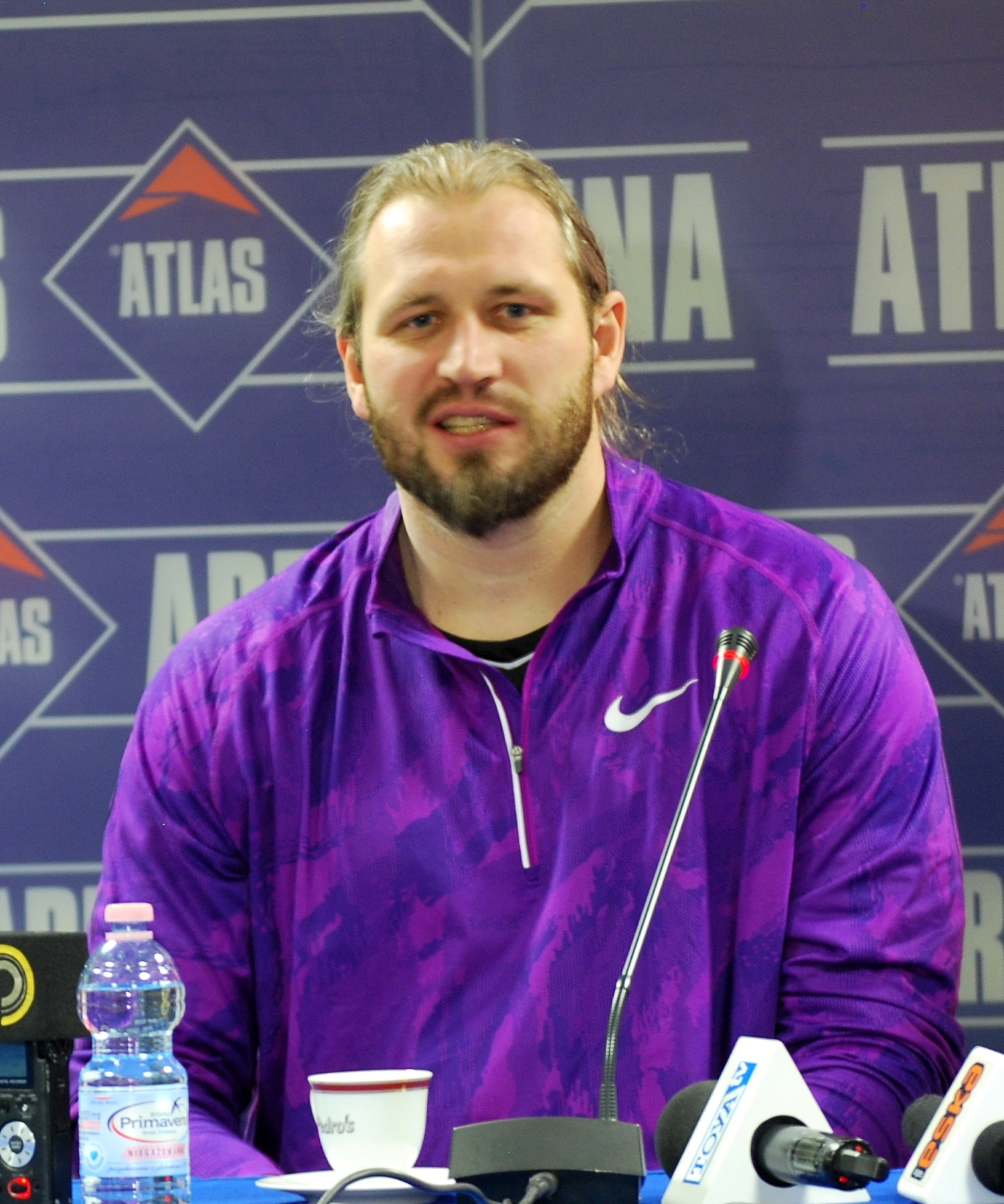 Tomasz Majewski, shot putter from Poland, Pedro's Cup Łódź 2016